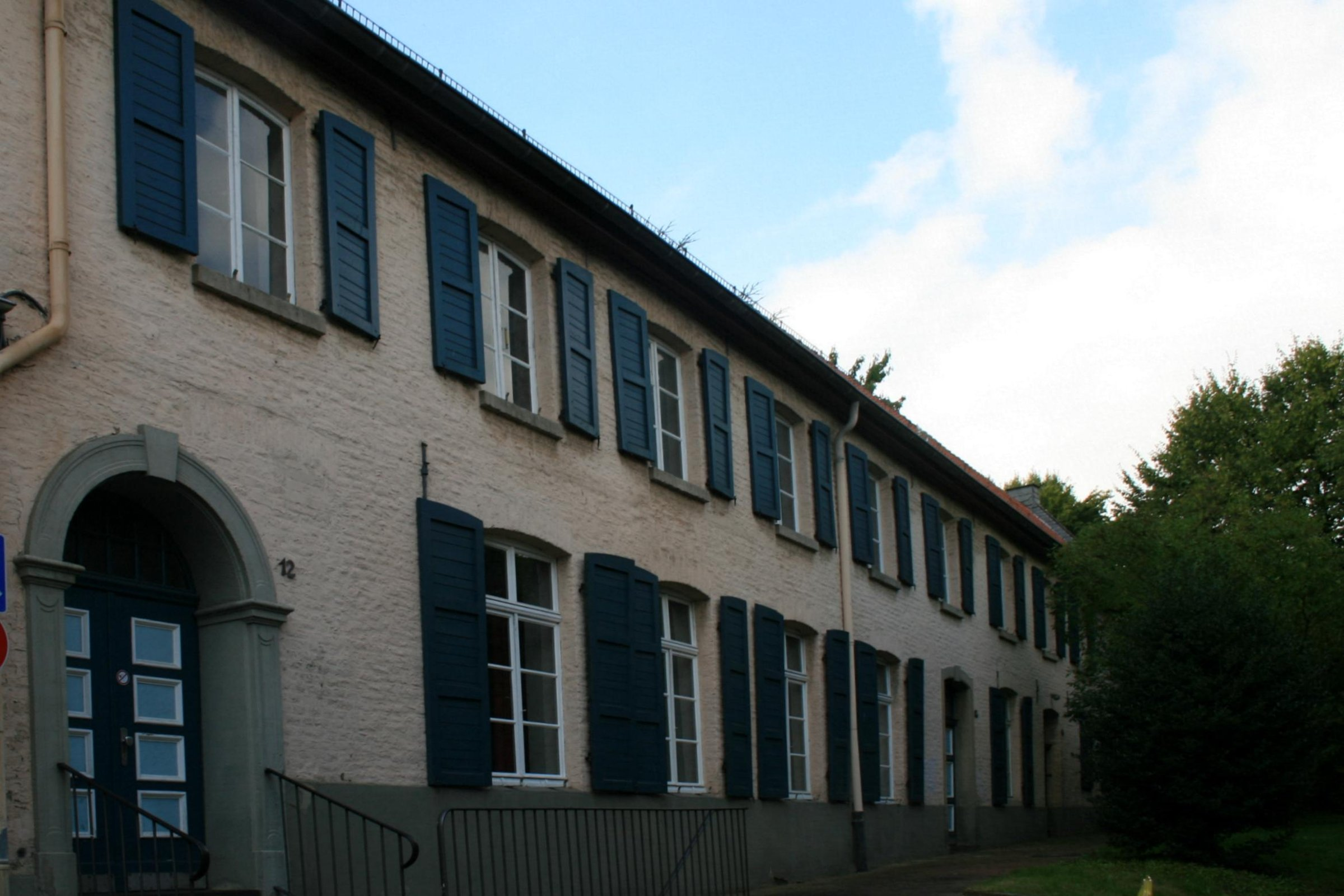 Cultural heritage monument No. K 033 in Mönchengladbach